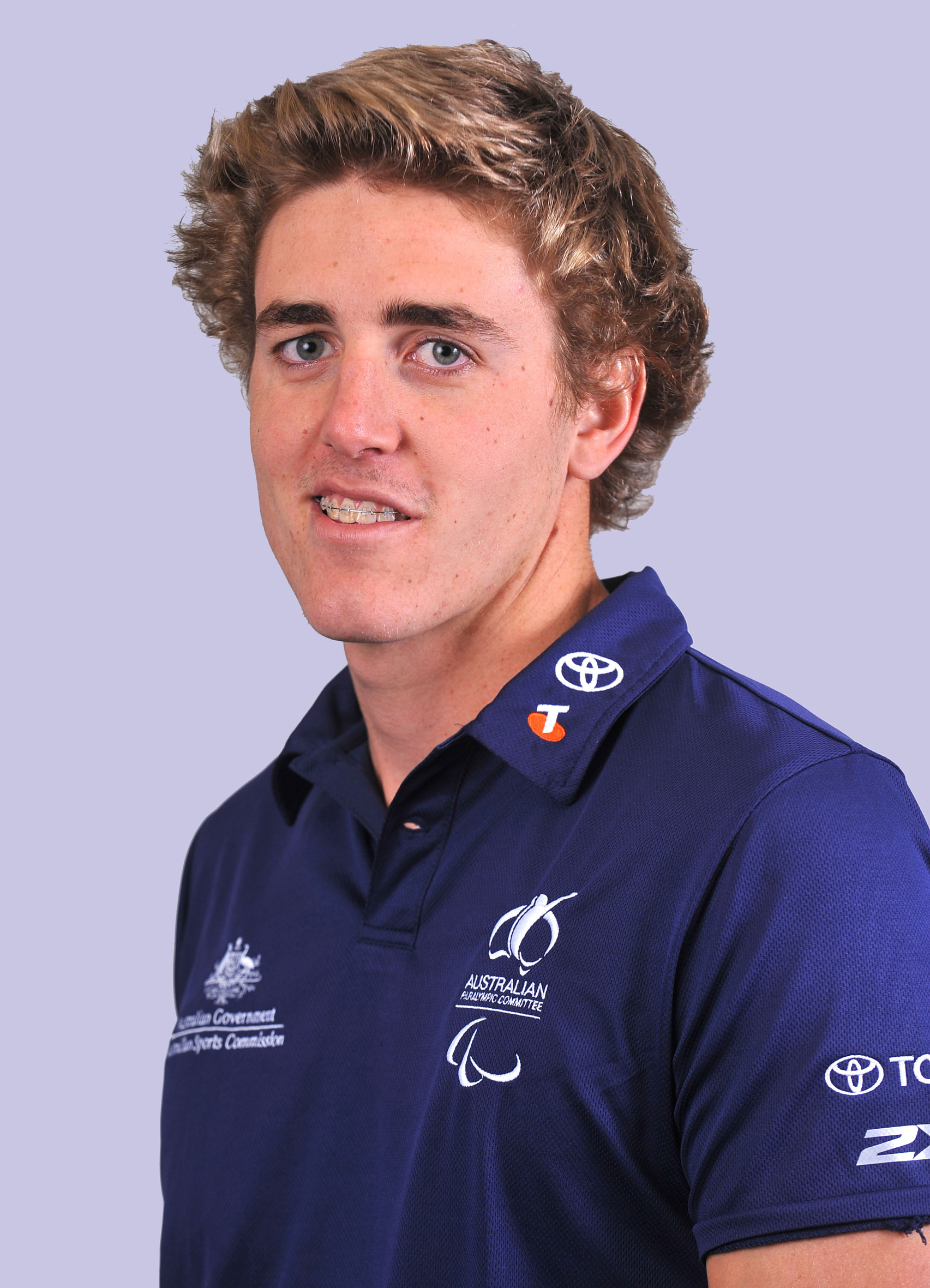 Portrait of Australian swimmer Brenden Hall, 2012 Australian Paralympic (shadow) Team athlete